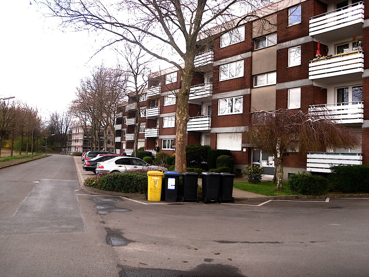 Tourcoing Street in Bottrop-Eigen (Germany), in honor of the city of Tourcoing in France.